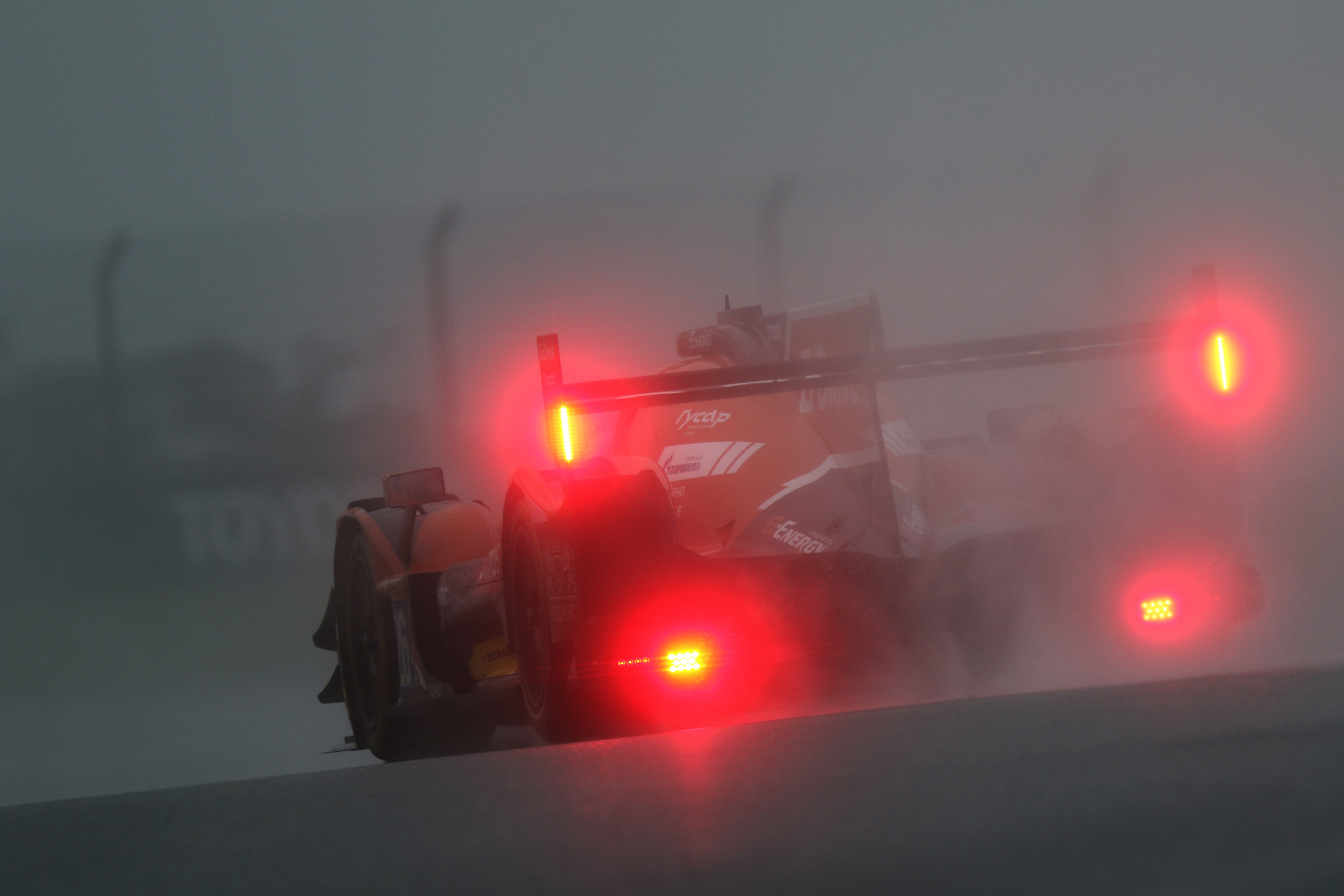 2017.10.15 WEC Rd.7 6 Hours of Fuji (Final) 26 G-DRIVE RACING Oreca 07 Gibson [7D2_4104ks]